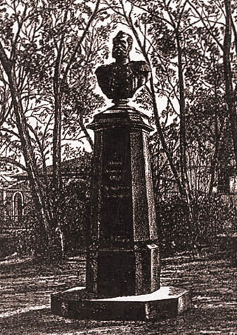 A reproduction of an engraving, depicting the bust of Russian tsar Alexander II in old Kyiv.